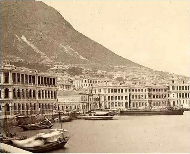 The first generation of Hongkong and Shanghai Banking Corporation (HSBC) Building in Hong Kong. The Wardley House (on the left) was rent to the HSBC for office use at that time. The building was located at the intersection of Queen's Road and Wardley Street (currently named Bank Street). The land was later bought by HSBC and used to built the 2nd, 3rd and 4th generation building until now.